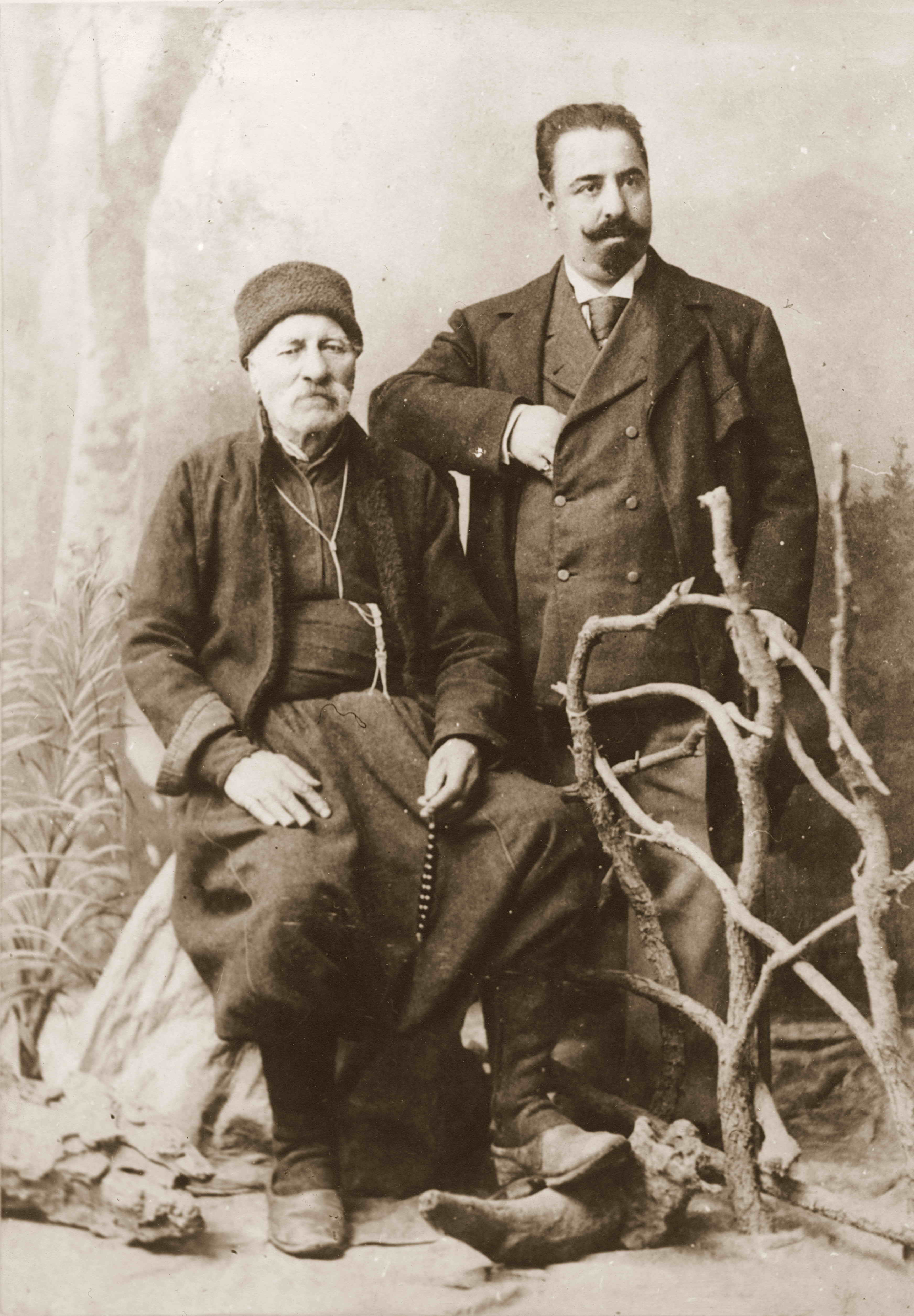 Stefan Kalchev